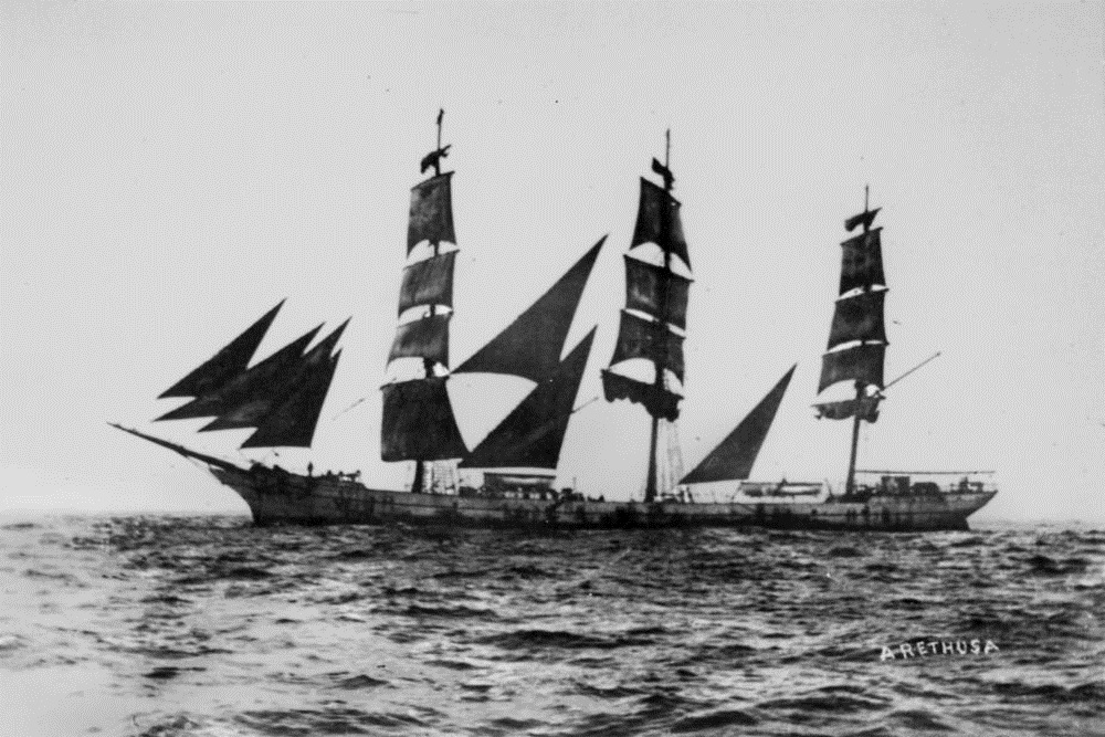 Full rigged ship ‚Arethusa‘, built by Connell, Glasgow. Publisher: John Oxley Library, State Library of QueenslandIs Part Of: Accession number: 8036Collection reference: 8036 A G Davies CollectionDescription: Digital format: image/jpeg ; Original format: copy print : b&wIdentifier: Negative number: 128423